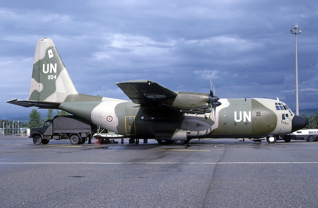 Royal Norwegian Air Force Lockheed C-130 Hercules at Basel Airport on 21 September 1984